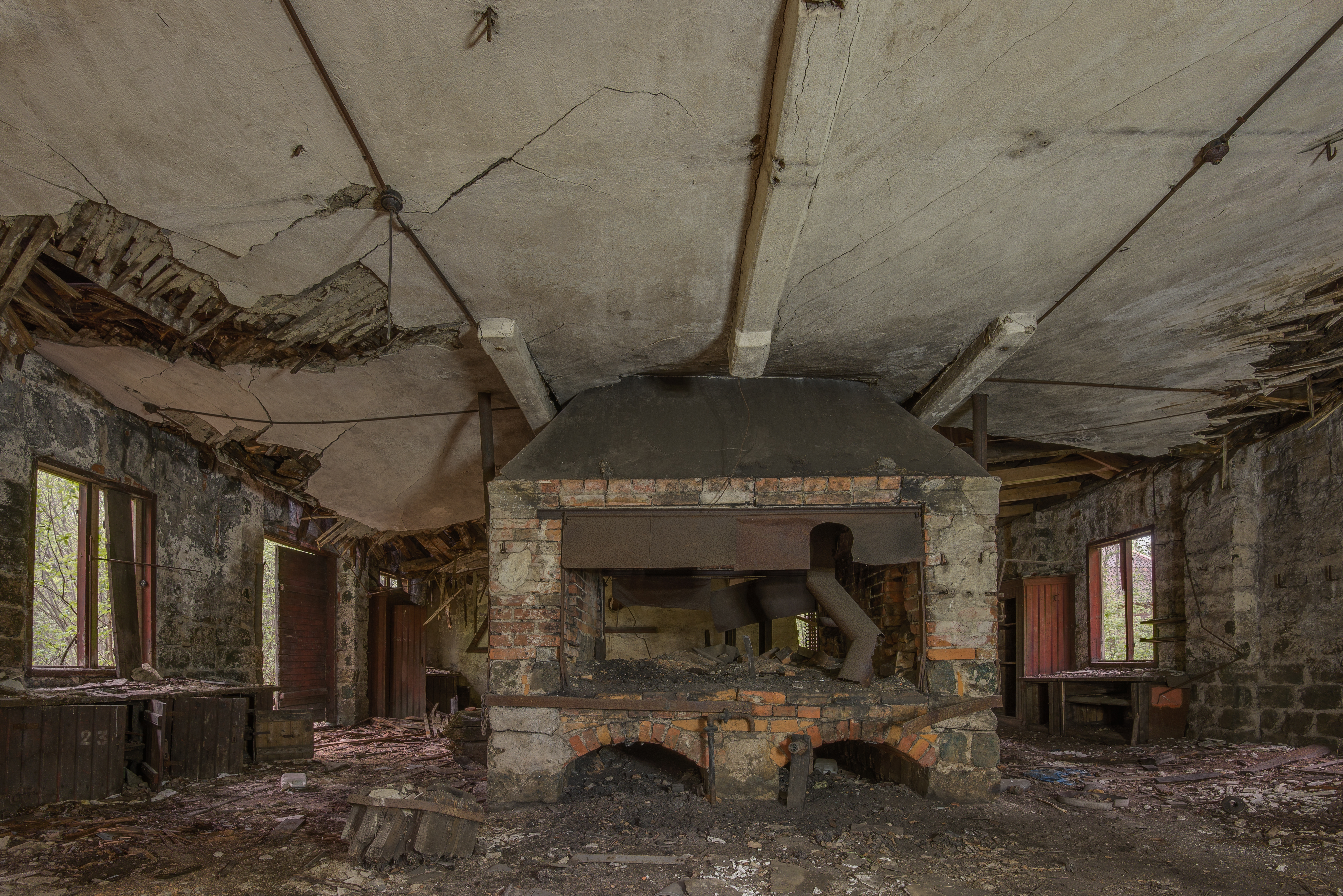 The blacksmith shop ("klensmedja") of Horndals bruk, Avesta Municipality, Sweden. . Tools used in the lancashire forge or the foundry were probably repaired in this workshop.